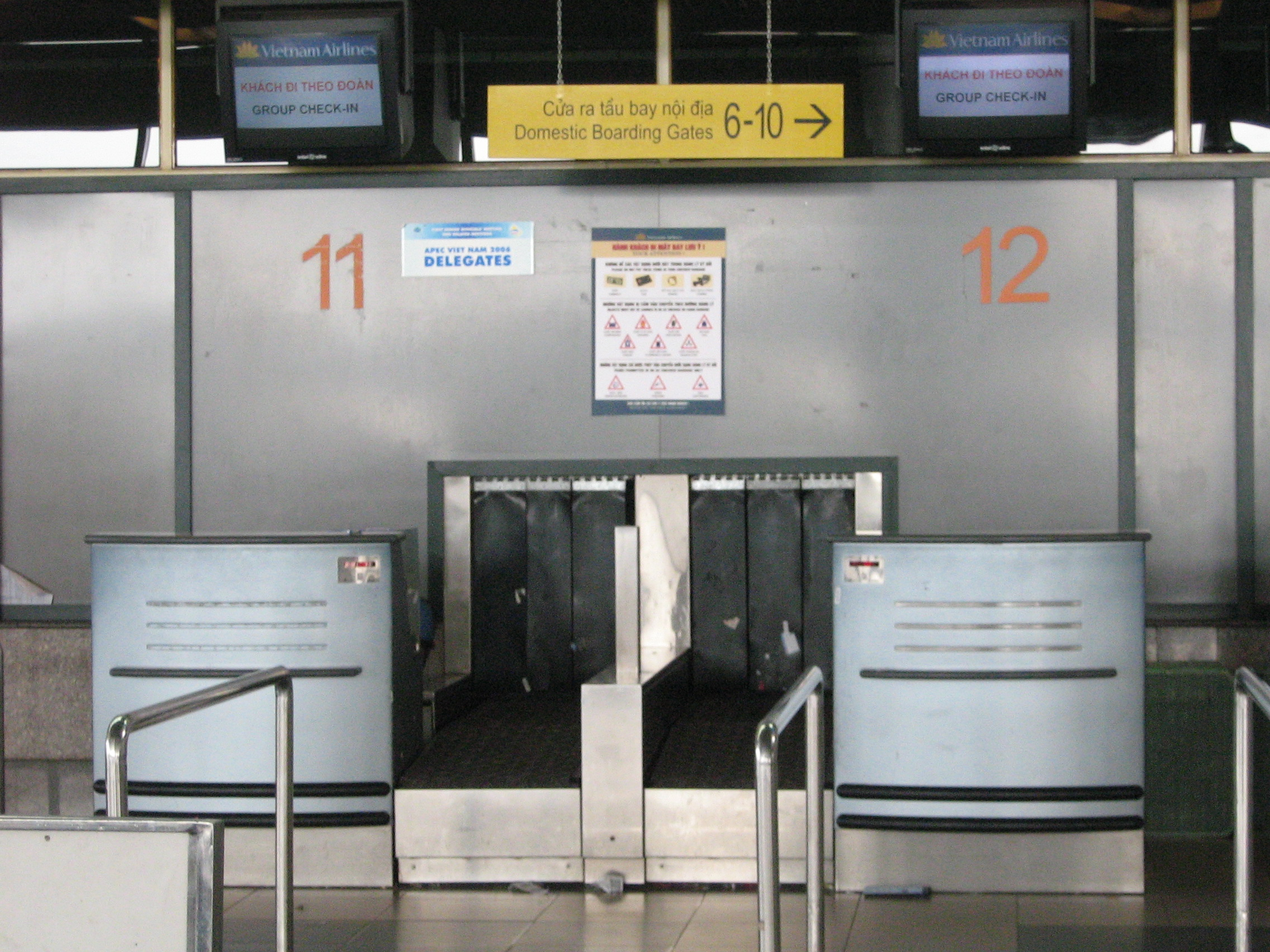 check-in at hanoi airport